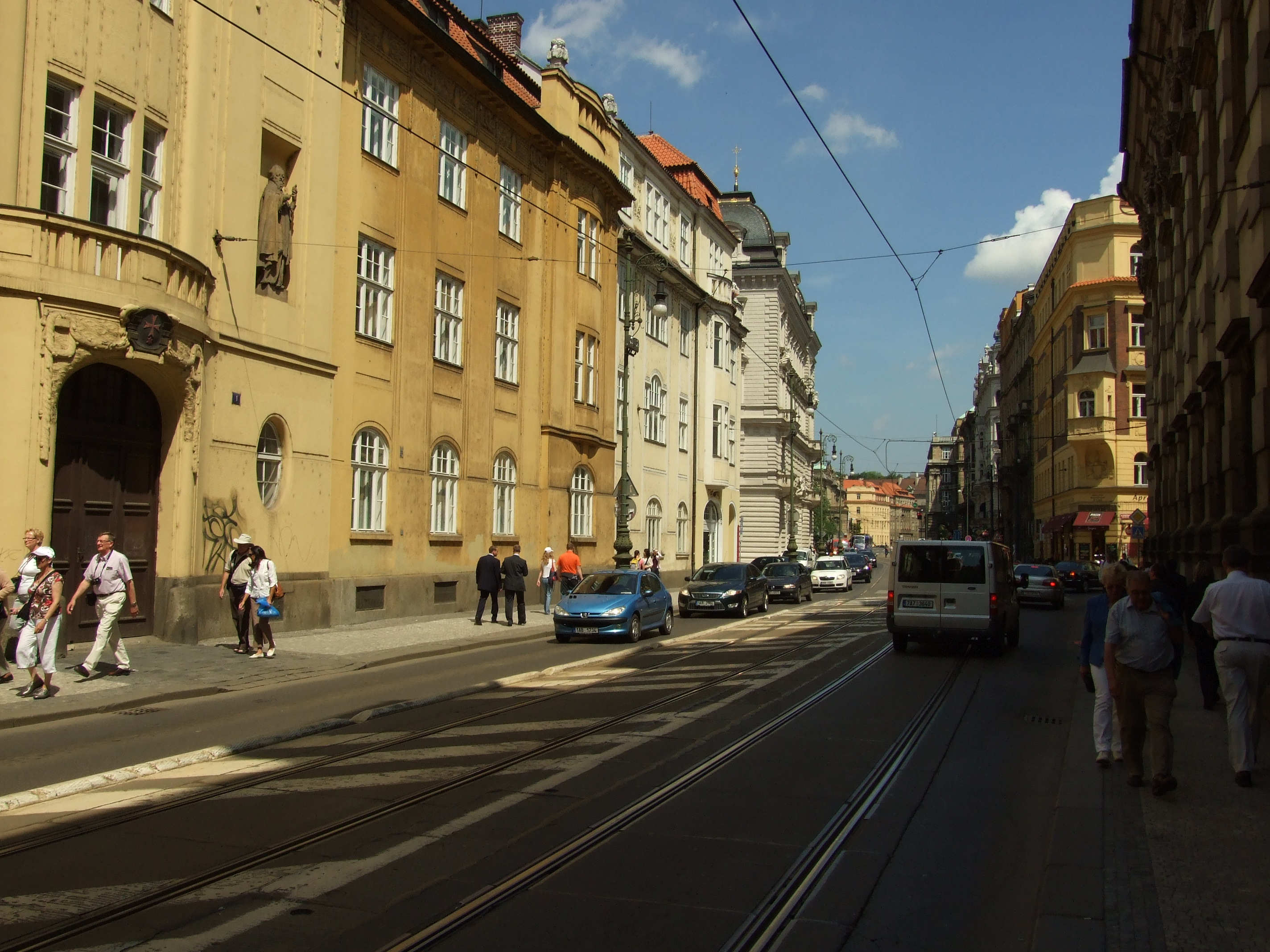 Křižovnická street in Prague, CZhelp